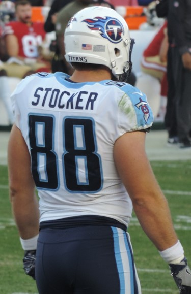 Luke Stocker with Titans in 2017